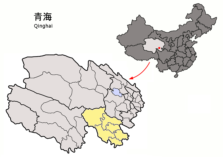 Location of Golog Prefecture (yellow) within Qinghai province of China Map drawn in september 2007 using various sources, mainly : Qinghai province administrative regions GIS data: 1:1M, County level, 1990 Qinghai Counties map from "Plateau Perspectives" (the limits of some county-level subdivisions may not be accurate)